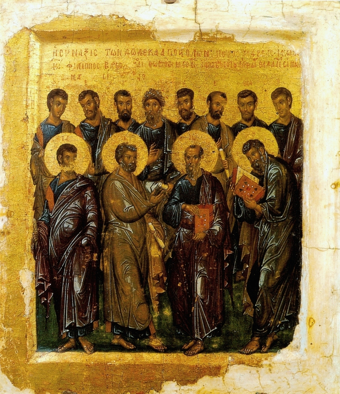 The Synaxis of the holy and the most praiseworthy Twelve Apostles